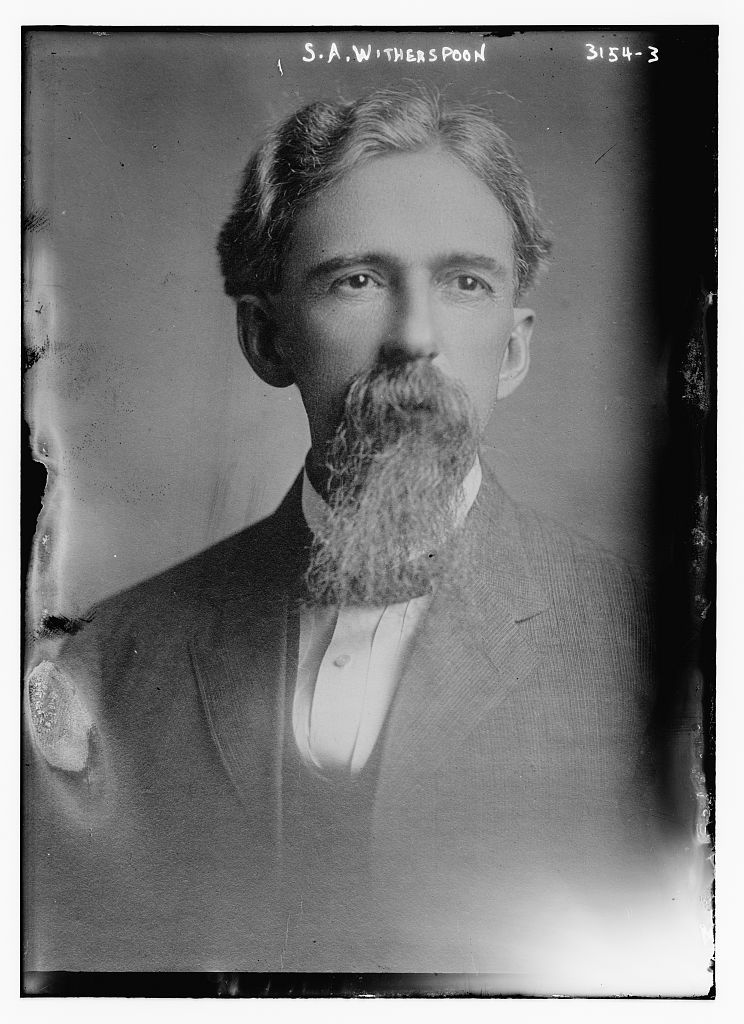 Samuel Andrew Witherspoon Bain News Service,, publisher. S.A. Witherspoon [between ca. 1910 and ca. 1915] 1 negative : glass ; 5 x 7 in. or smaller. Notes: Title from unverified data provided by the Bain News Service on the negatives or caption cards. Forms part of: George Grantham Bain Collection (Library of Congress). Format: Glass negatives. Repository: Library of Congress, Prints and Photographs Division, Washington, D.C. 20540 USA, General information about the Bain Collection is available at Persistent URL: Call Number: LC-B2- 3154-3